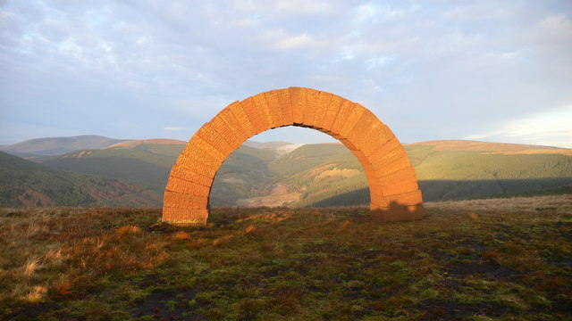 Bail Hill Striding Arch. Looking north-west up the Glencairn valley from one of Andy Goldsworthy's Striding Arches